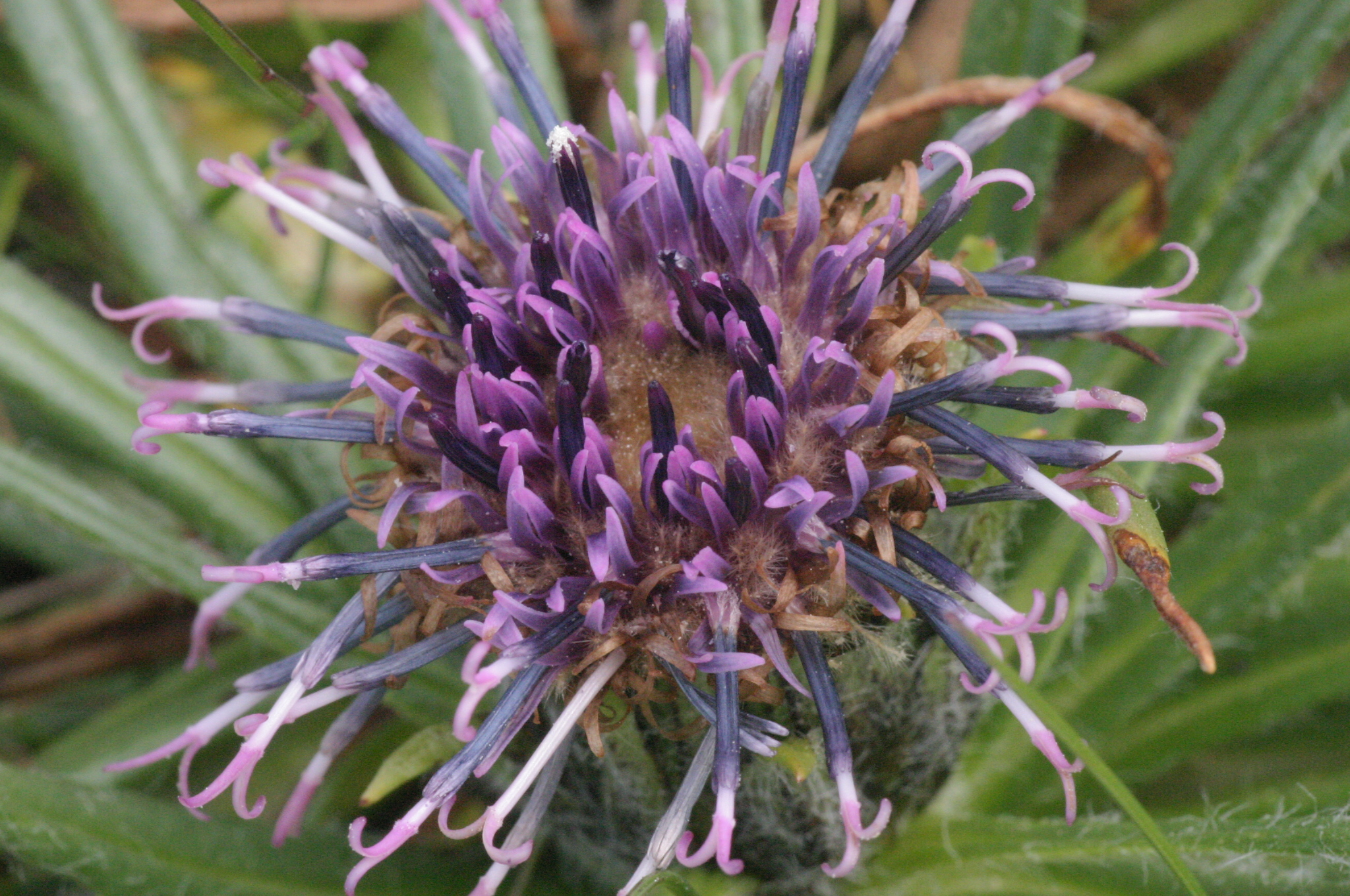 Saussurea pygmaea